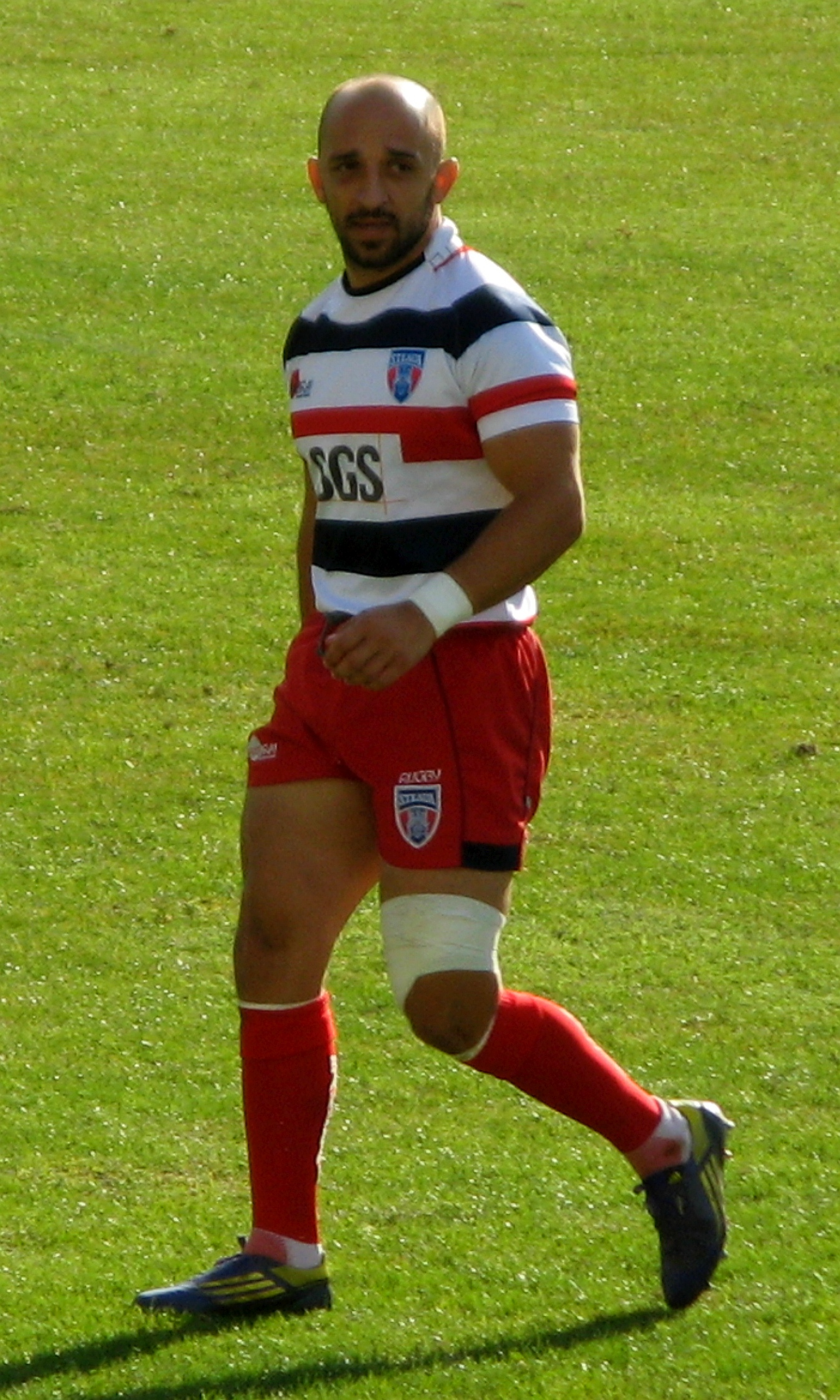 Romanian rugby union international Grigoraș Diaconescu, player of CSA Steaua București rugby club seen in a match against CSM Baia Mare in Round 5 of Romanian Rugby SuperLiga in September 2017